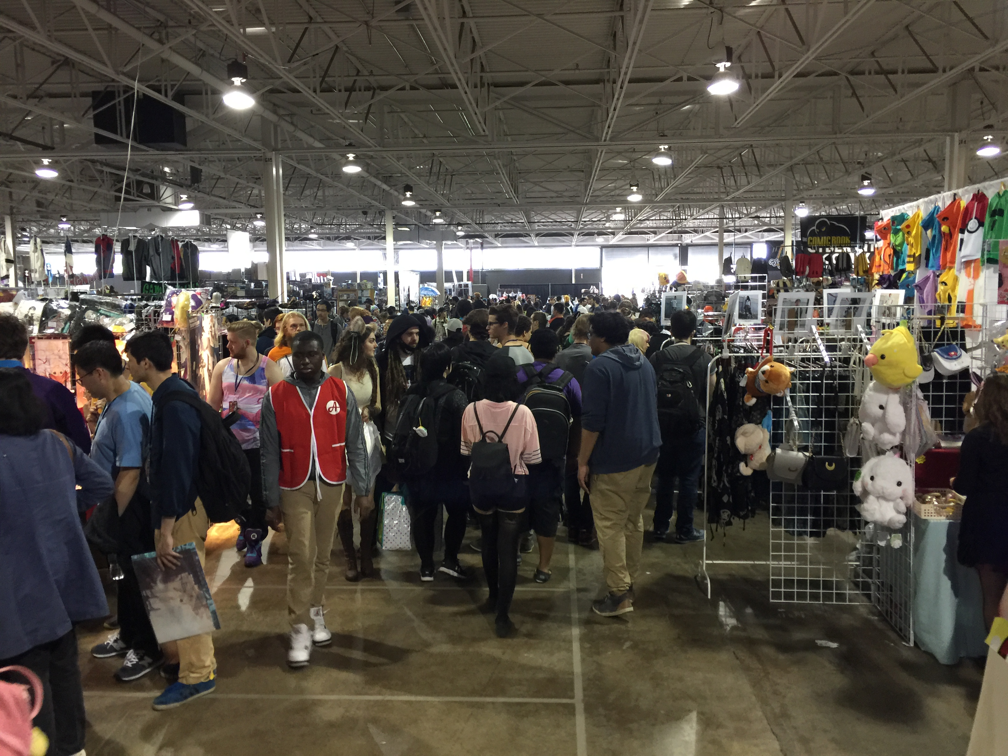 Anime North 2017 event photo.